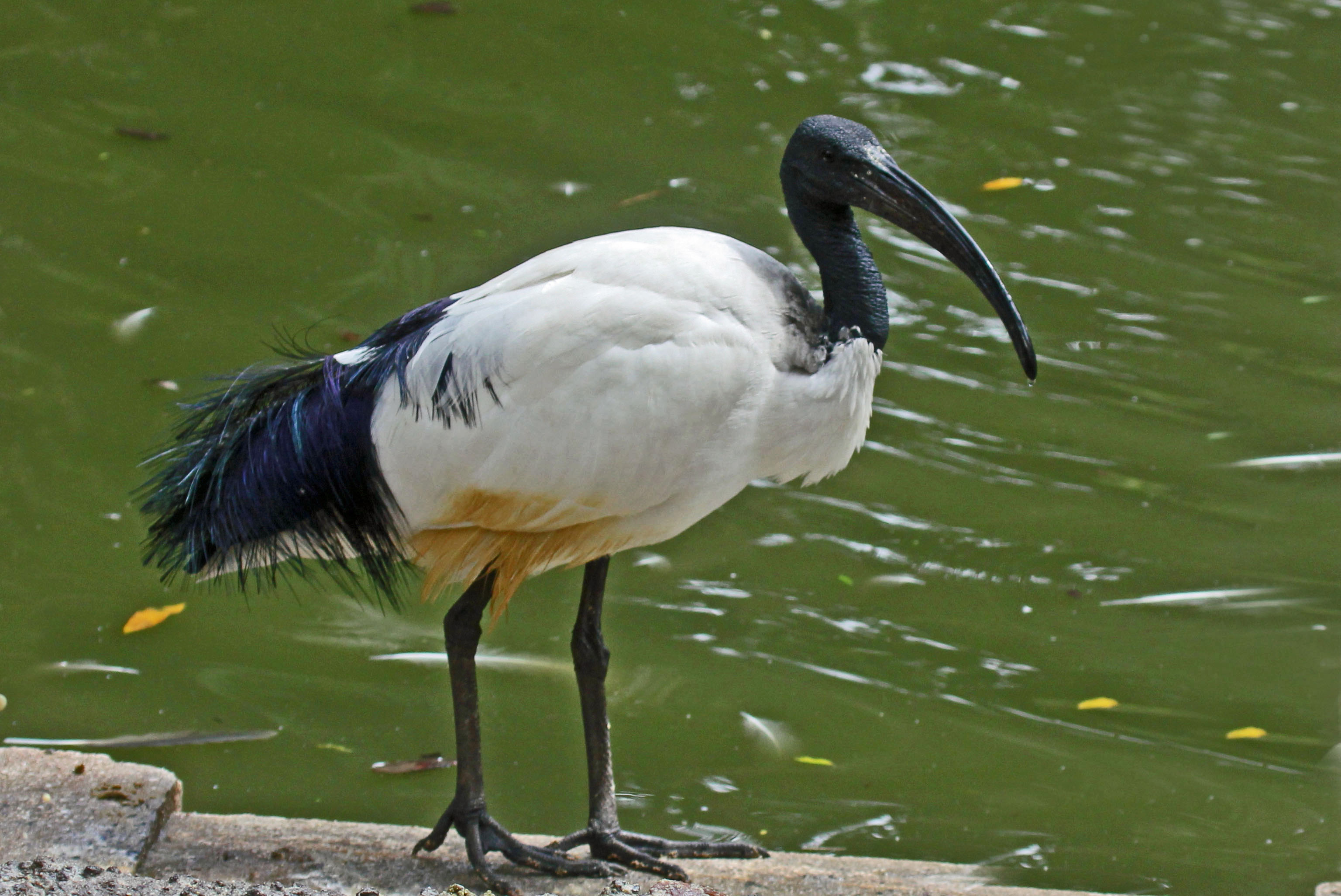 African Sacred Ibis (Threskiornis aethiopicus) - World of Birds, Cape Town, South Africa